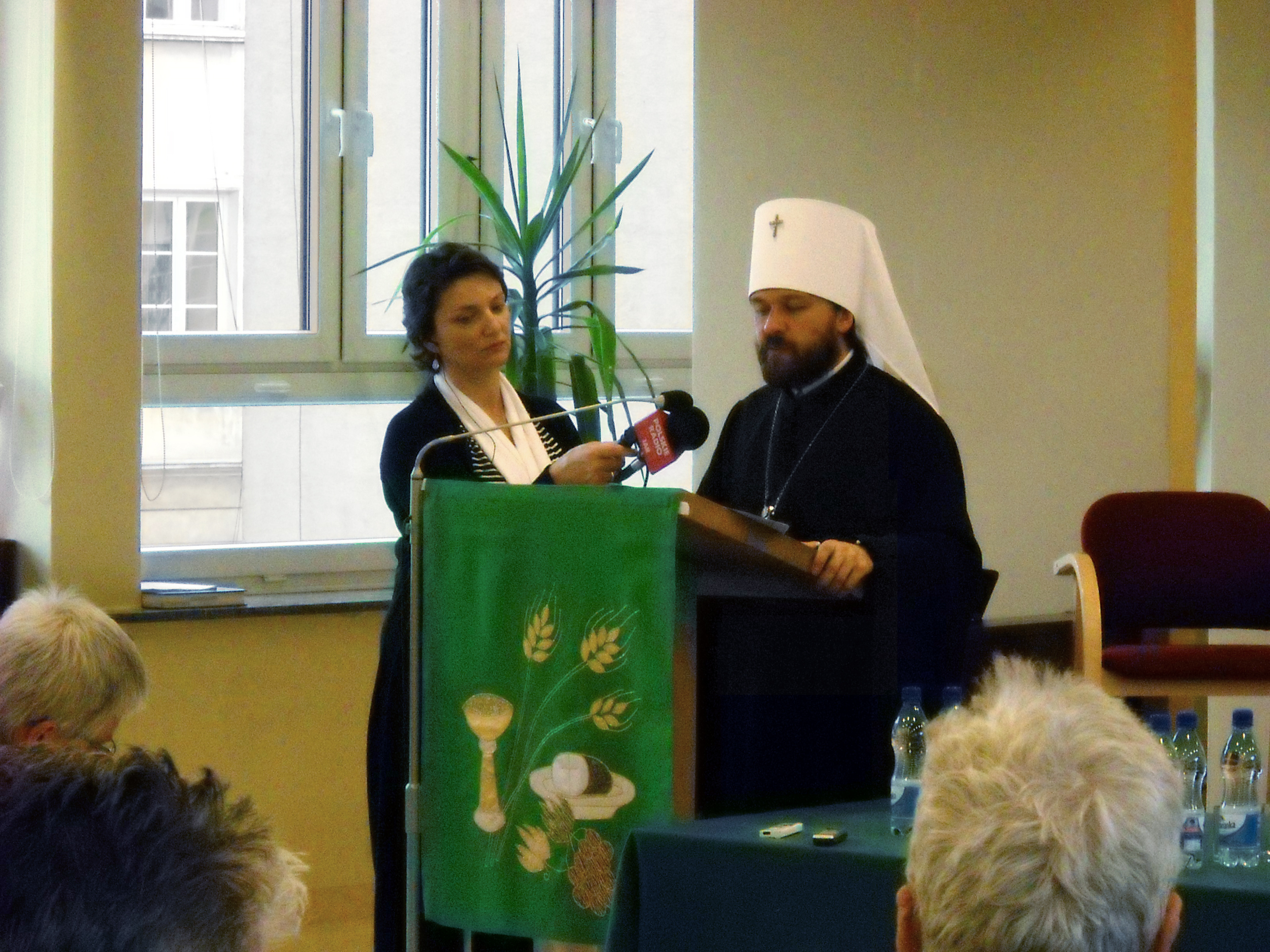 Metropolitan Hilarion of Volokolamsk speaks at Christian Theological Academy in Warsaw